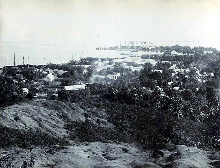 View of Papeete, Tahiti. Albumen photograph, c 1890's